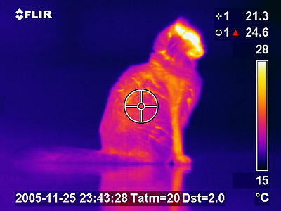 thermographic image of a cat